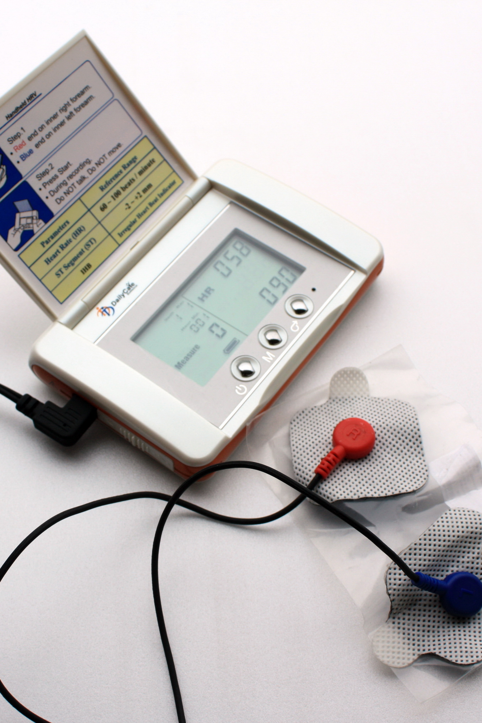 A portable heart rate variability measuring device with Kendall Medi-Trace 200 foam electrode attached.